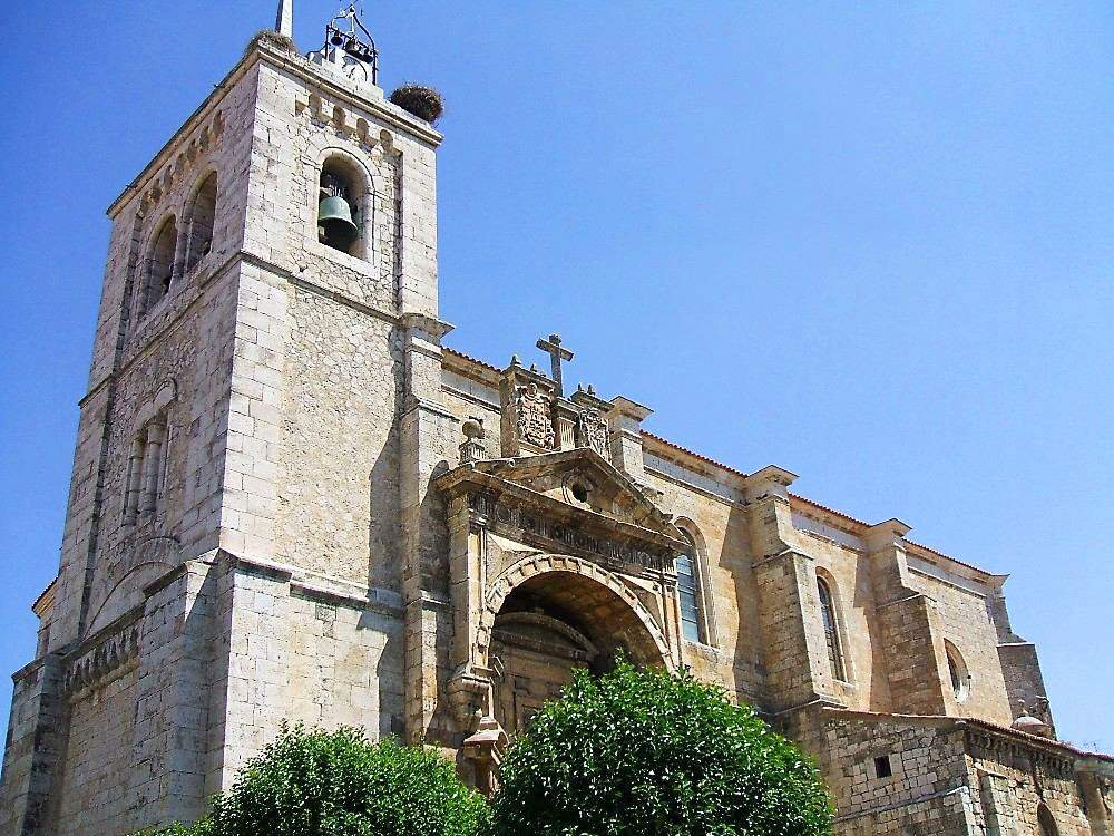 Ex Colegiata de Santa María, Roa (Burgos)